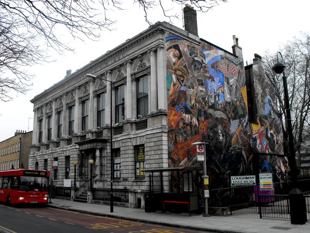 St George's Town Hall, E1, near to Stepney, Tower Hamlets, Great Britain. On the south side of Cable Street, to the rear of St George's in the East Church, is St George's Town Hall. The Mural on the side of the building commemorates the 1936 'Battle of Cable Street'. Geograph of the mural: Link